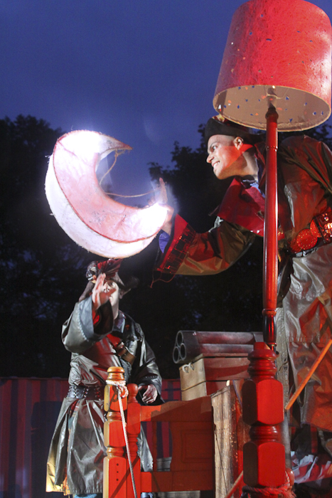 Cargo